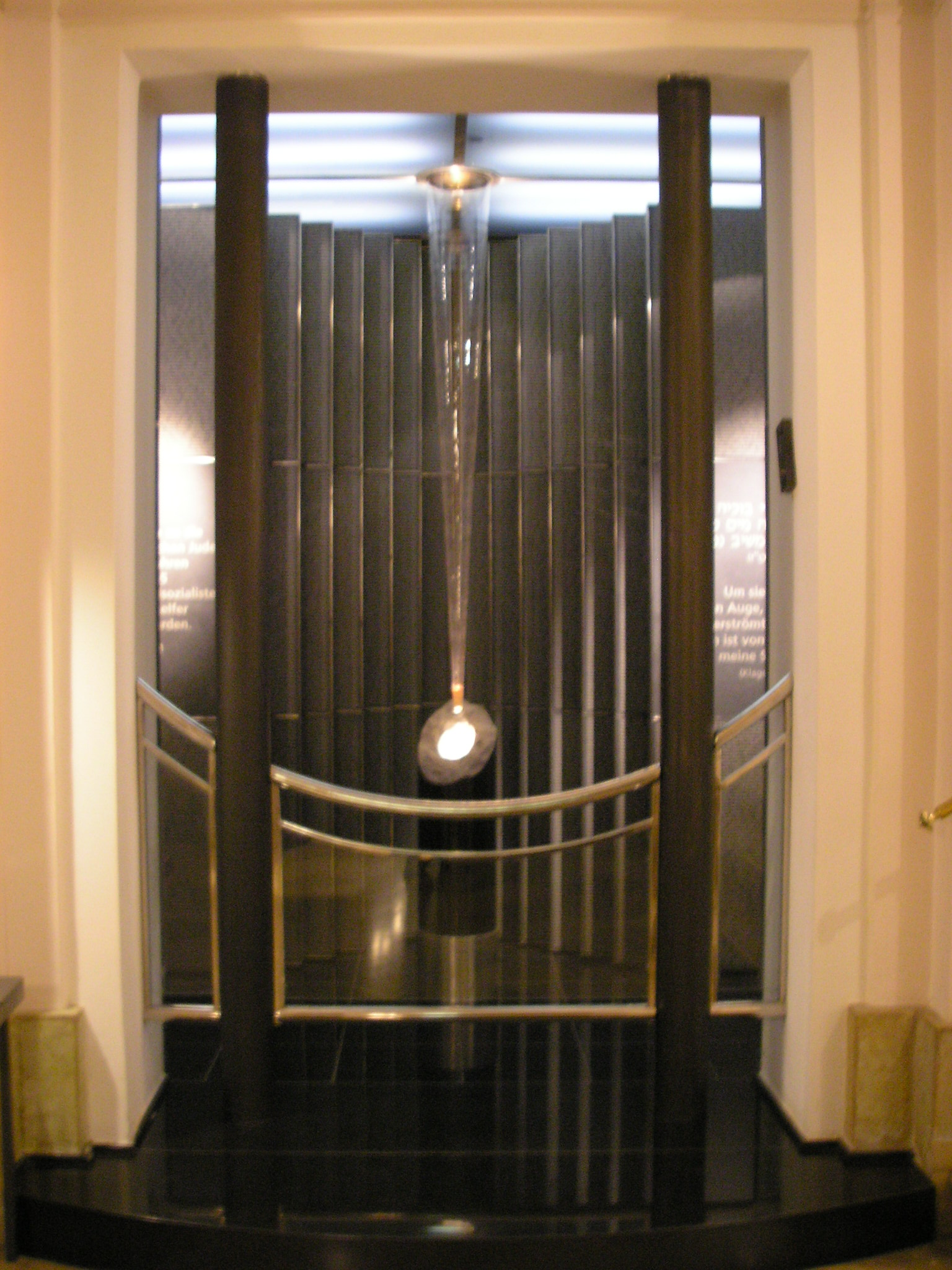 Image of the interior of the Stadttempel in Vienna.